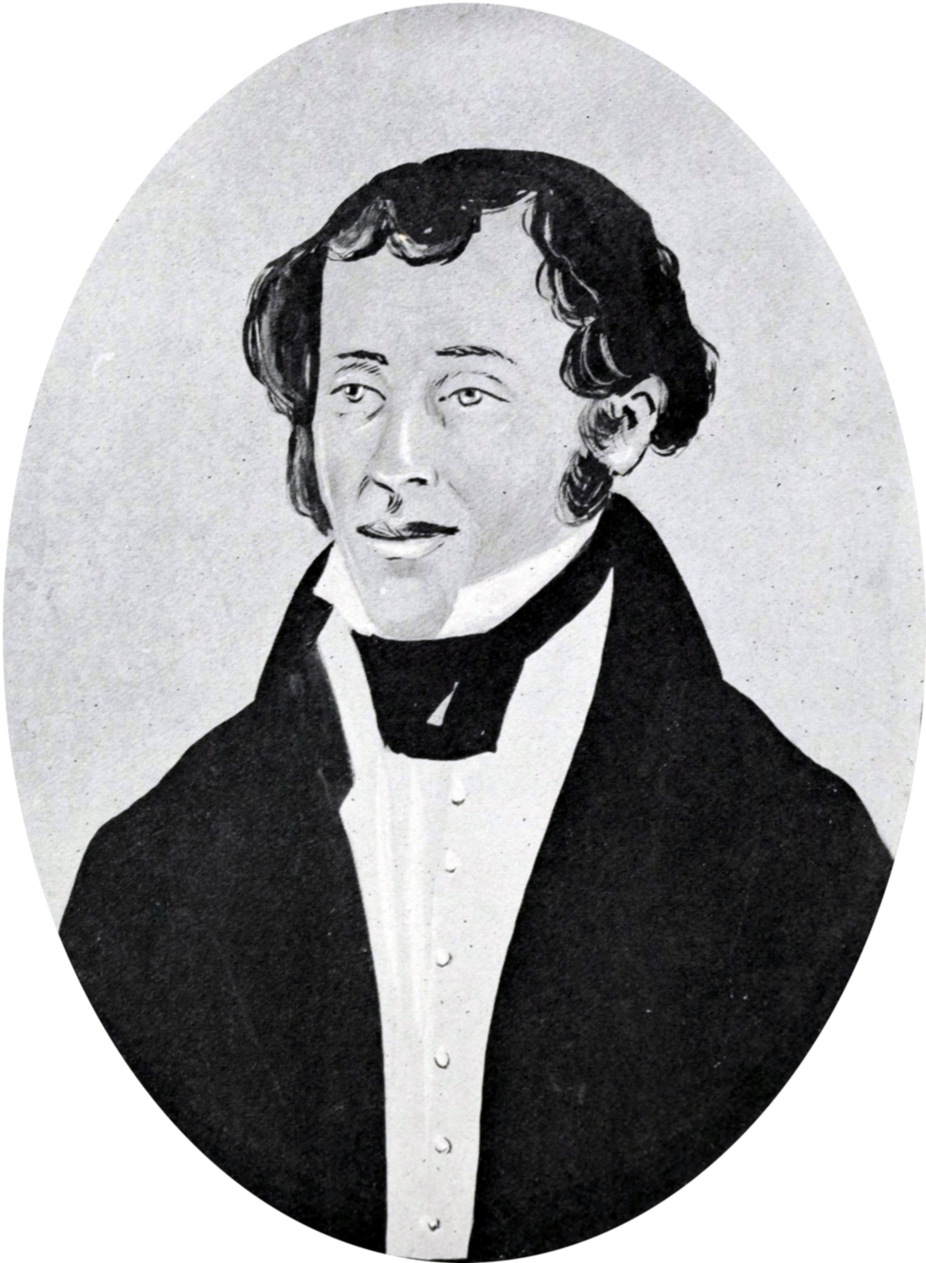 Captain George Charles Beckley, English friend and military adviser of Kamehameha the Great, and first commander of the old Honolulu fort in 1816. He was granted chiefly rank by the Conqueror and married to Chiefess Loaa K. Ahia. His descendants claim for him the designing of the Hawaiian flag. From rare oil painting.